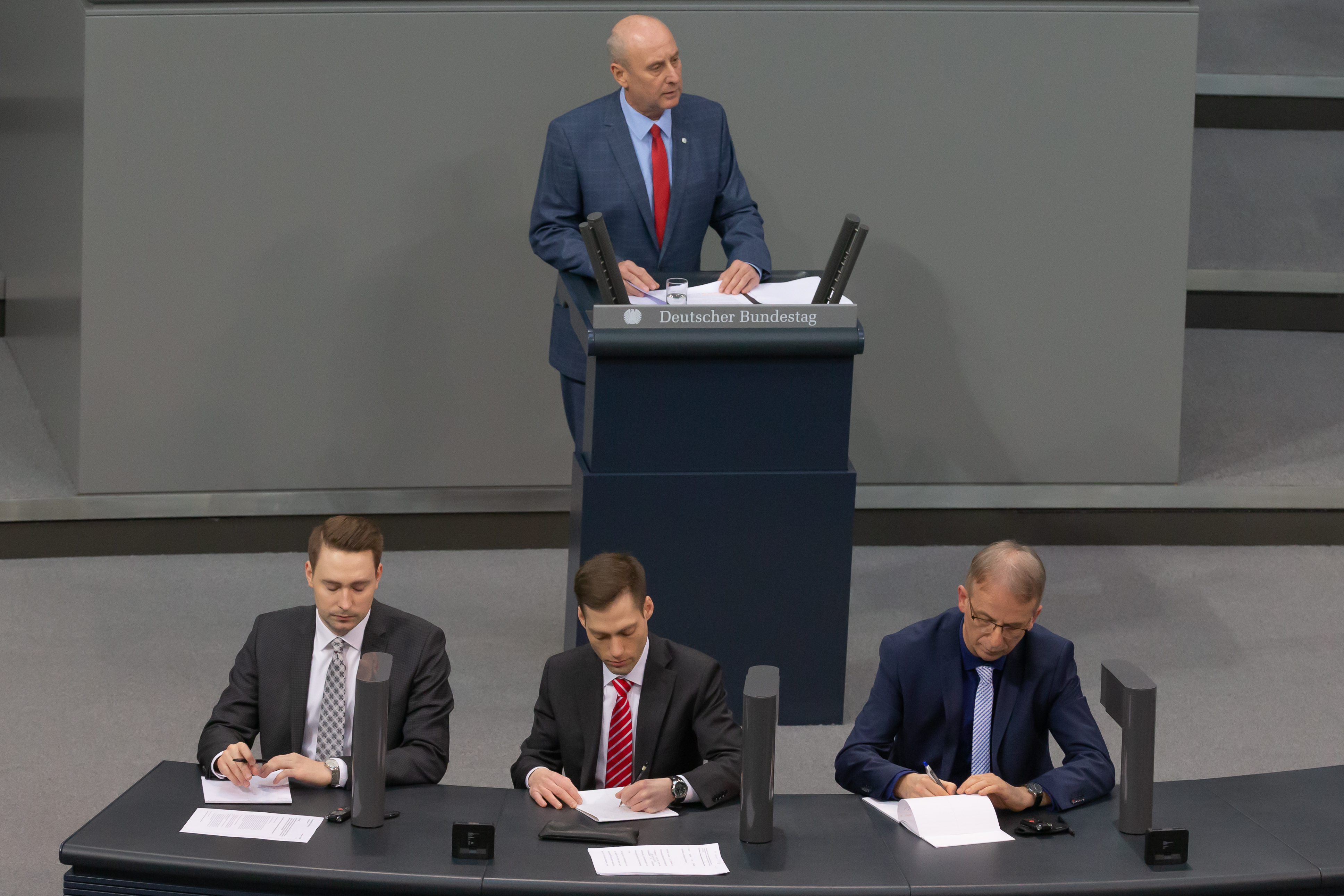 Stenographer(s) in the German Bundestag